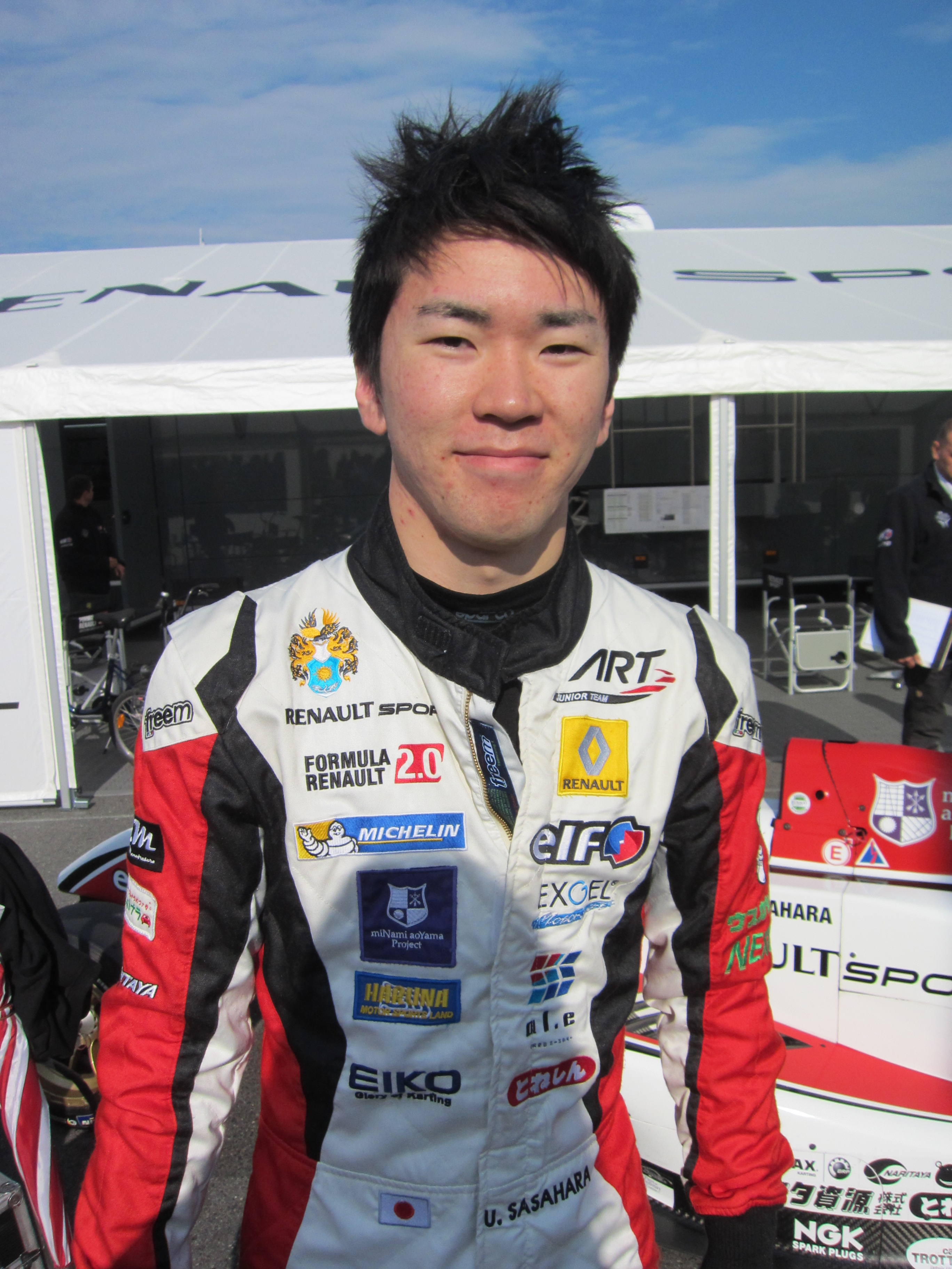 Ukyō Sasahara: the photo was taken during 2015's ADAC GT Masters race weekend at Hockenheim